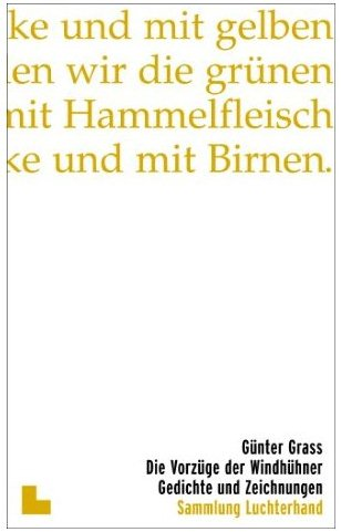 Book cover of Günter Grass "Die Vorzüge der Windhühner. Gedichte und Zeichnungen" 1956